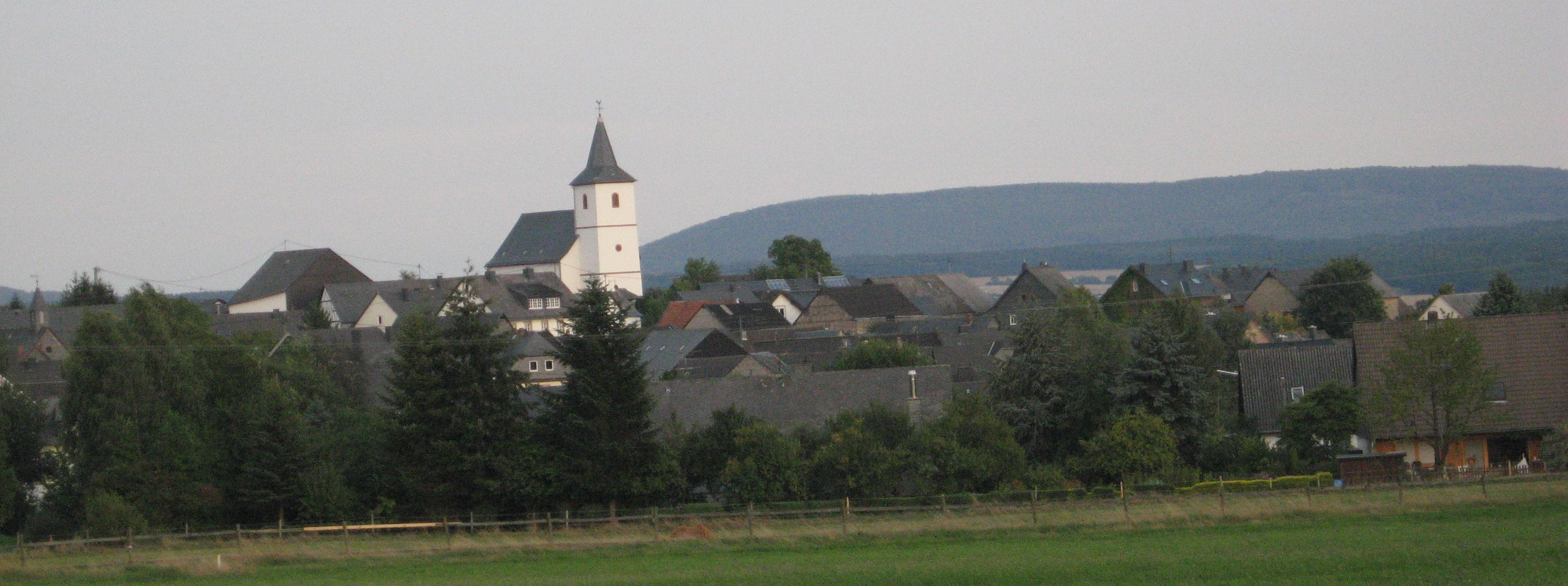 Village Horn in the Hunsrück landscape, Germany.